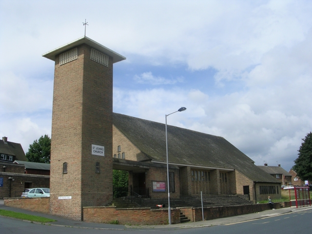 Parish church of St John the Divine, Idlethorp Way, Thorpe Edge, Bradford, seen from the east